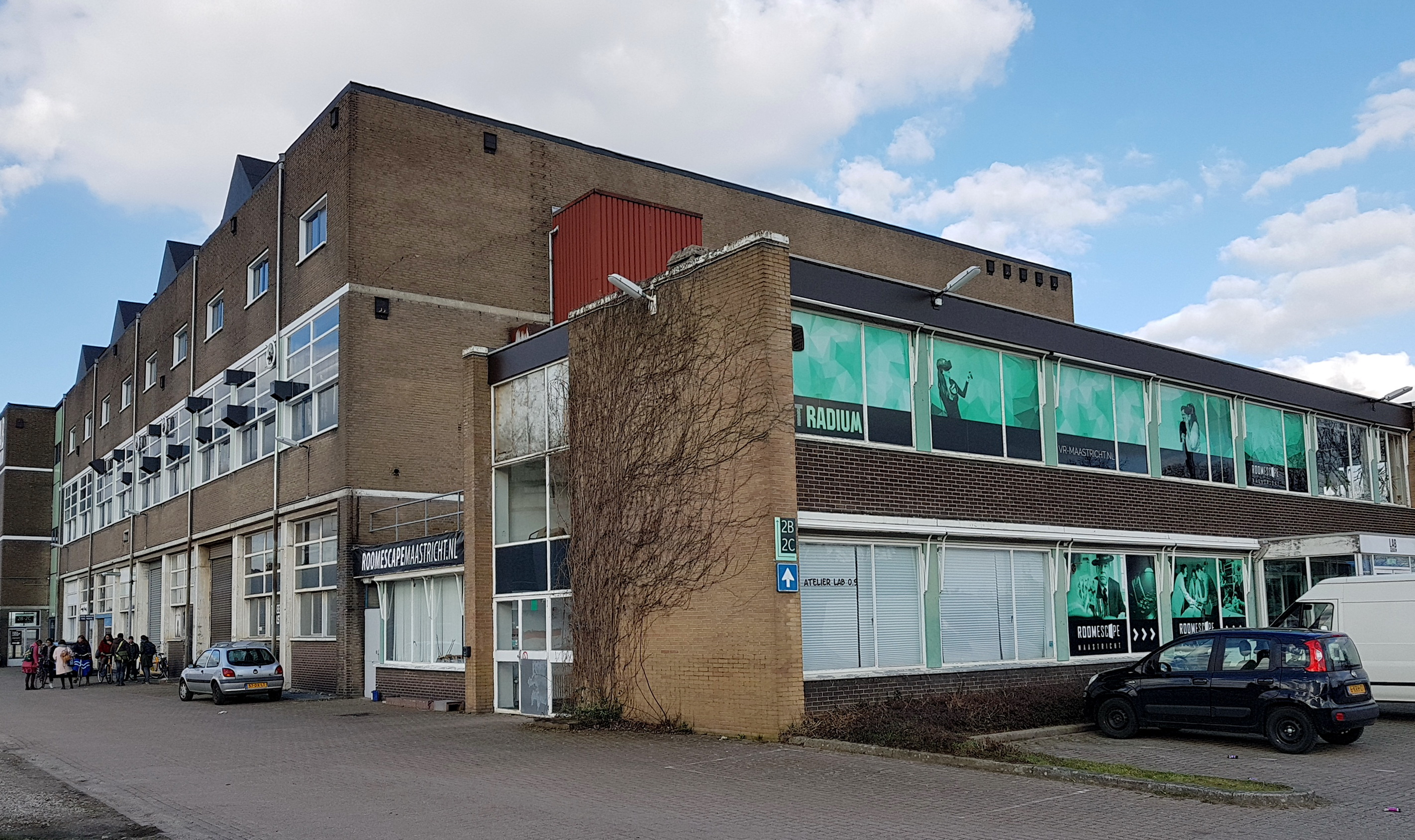 Former laboratory building of Radium Rubber, now used by several cultural organizations (LABgebouw), in Bosscherveld, Maastricht, Netherlands.